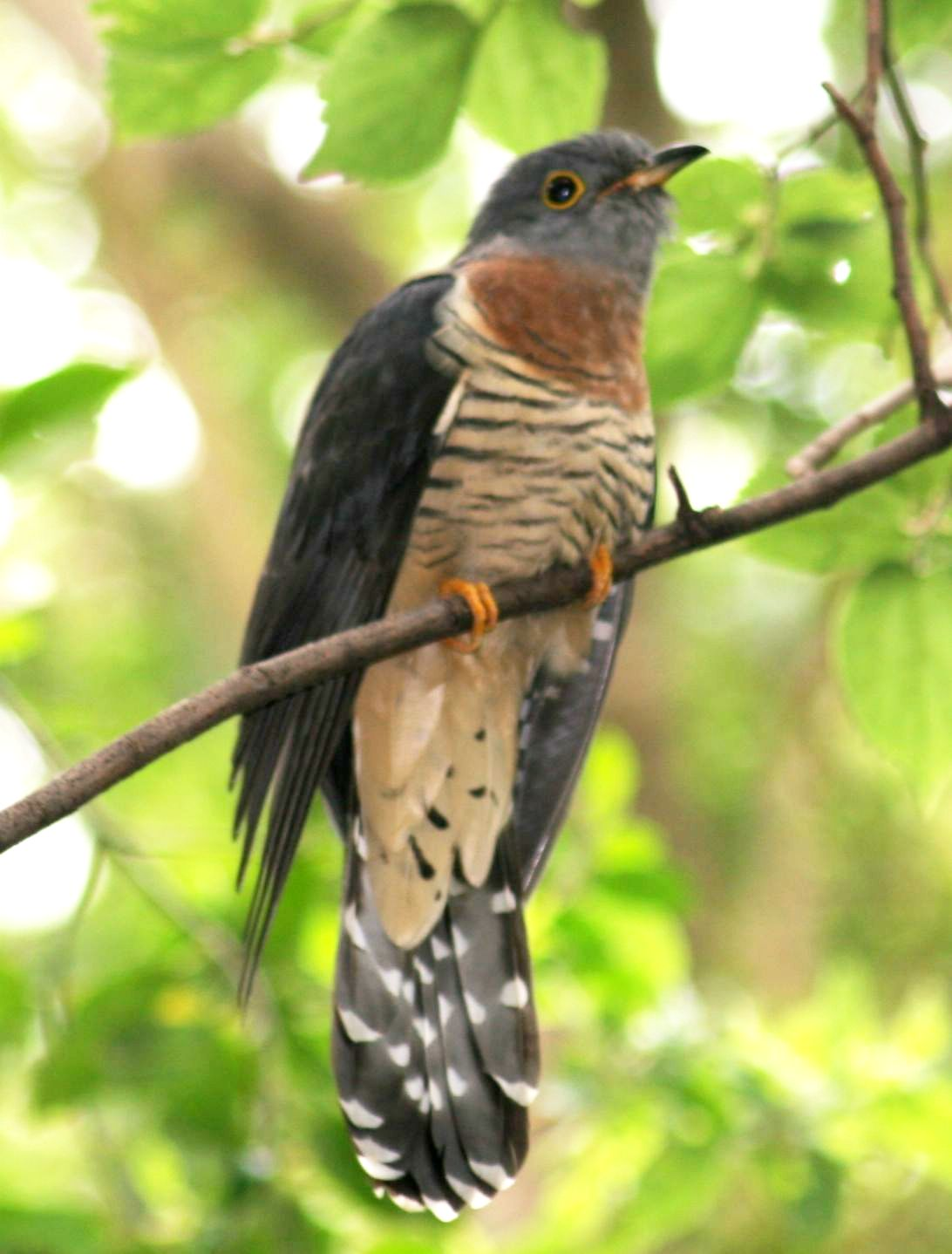 Red-chested Cuckoo (Cuculus solitarius) perched in a tree "Afrikaans common name: Piet-my-vrou. Named after it's distinctive 3 note call. Piet-my-vrou translates to Peter-my-wife . This bird posed for long, very unusual for a cuckoo. Unfortunately I was all thumbs so I took half the pictures with no flash and although they were better composed they are just too dark. Taken at Walter Sisulu Botanical Gardens."